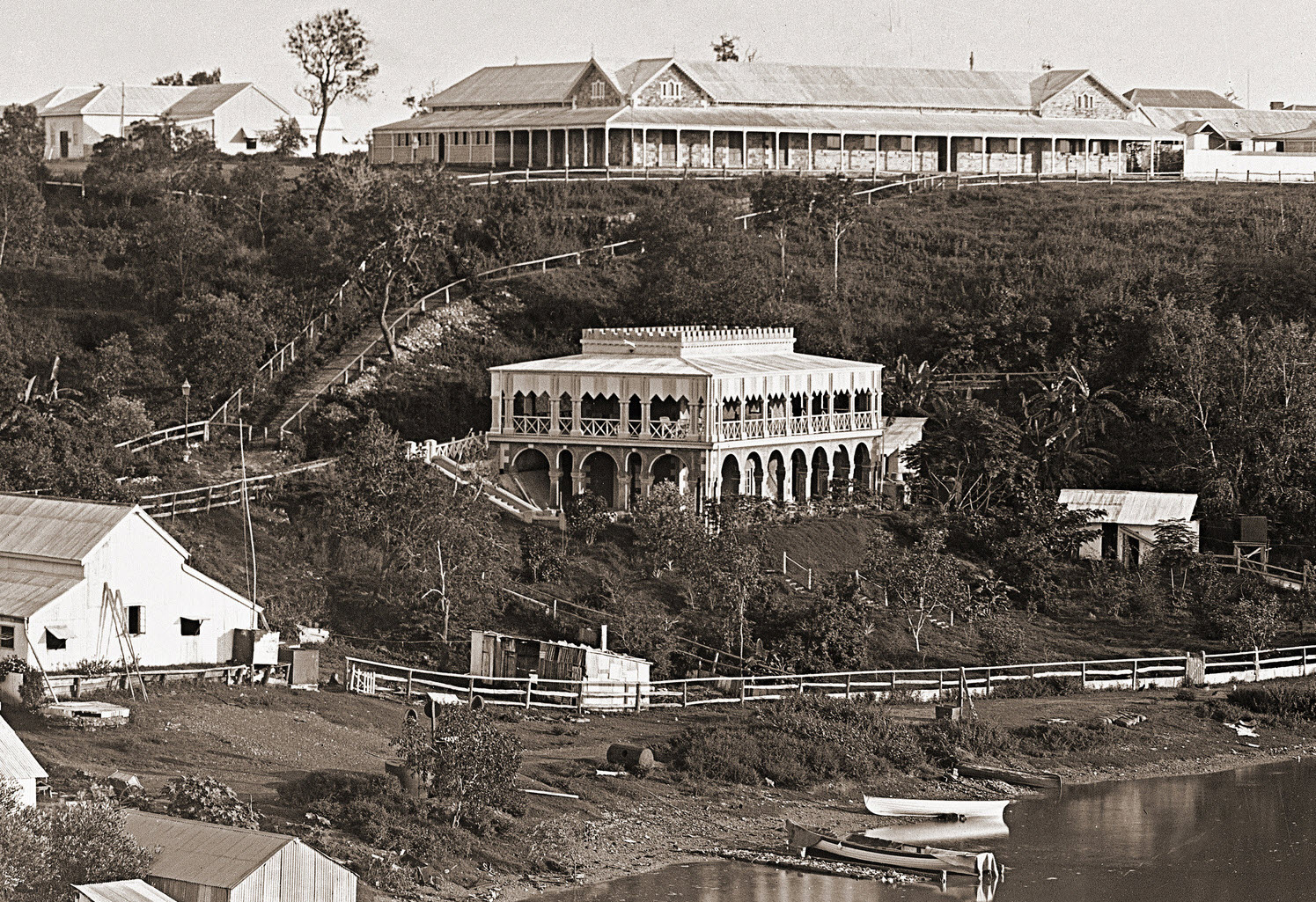 Mud Hut also Known as Knight's Folly in Darwin taken in 1902. Image cropped.